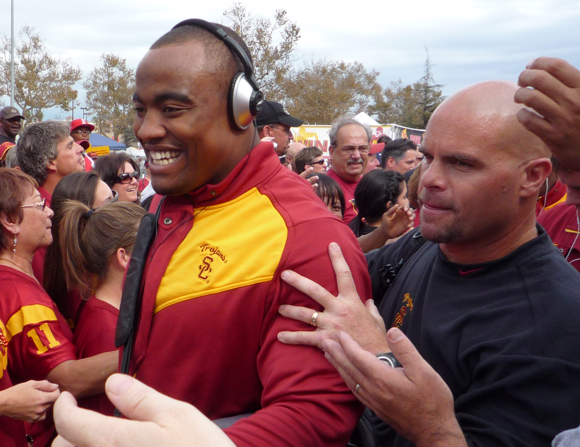 Defensive end Everson Griffen (L) and USC Defensive Coordinator Nick Holt during the "Trojan Walk" preceding a 2008 USC Trojans football season game.